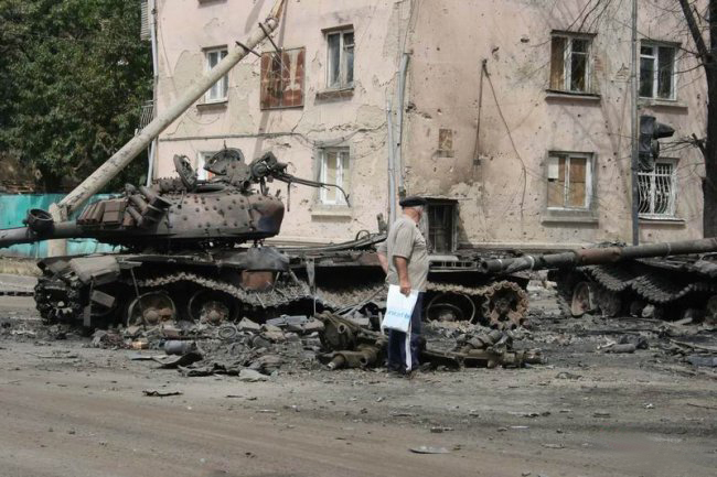 18 August 2008. Destroyed Georgian T-72 tank